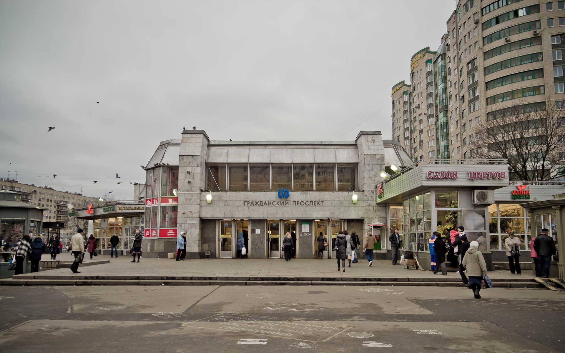 Grazhdansky Prospekt station of Saint Petersburg Subway, pavilion